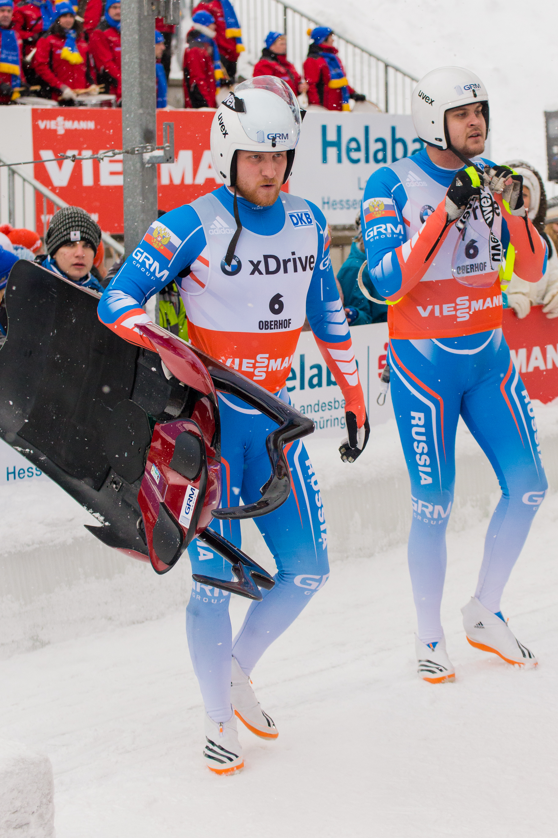 Luge world cup Oberhof 2016-01-17